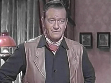 John Wayne in McLintock! (1963) (cropped screenshot)